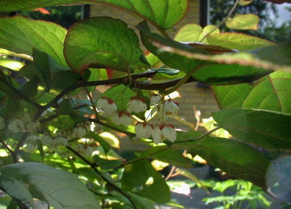 Actinidia kolomikta: Flowers and leaves.